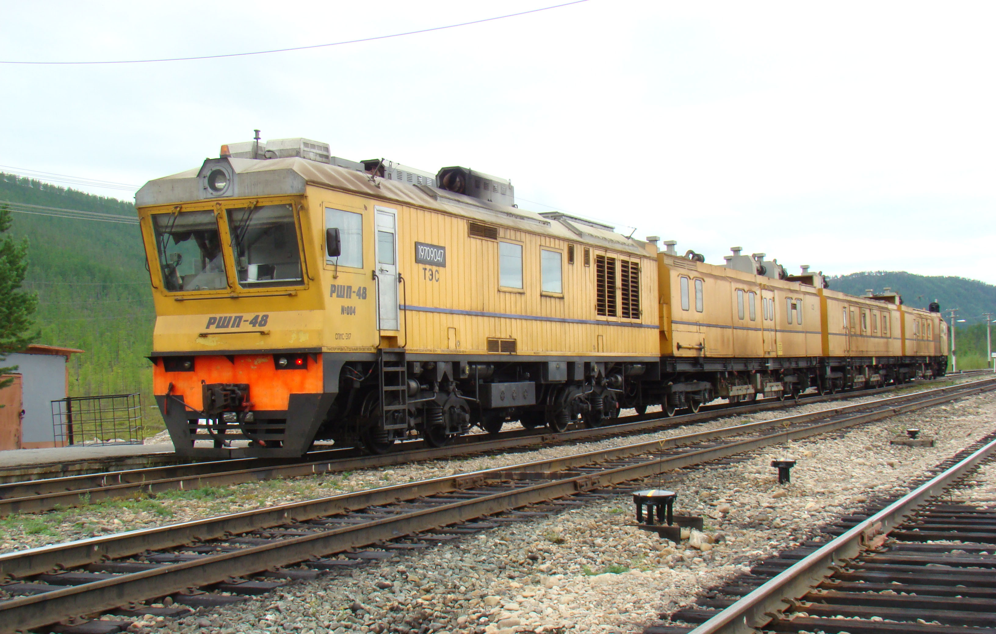 Rail-grinding train RSHP-48